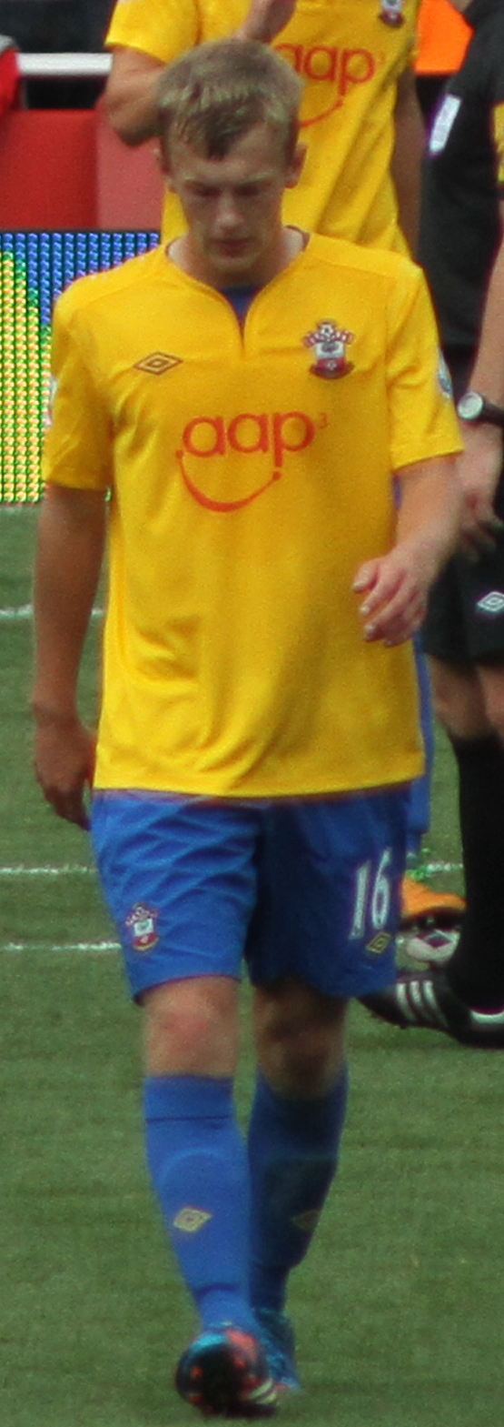 James Ward-Prowse v Arsenal.